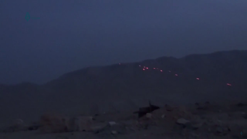 Syrian opposition forces target several positions of ISIL in the eastern Qalamon Mountains during the night.